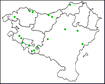 Author: Sugaar Source: X. Peñalver, Euskal Herria en la Prehistoria, 1996. ISBN 84-89077-58-4 Legend: Main Neolithic sites in the Basque Country